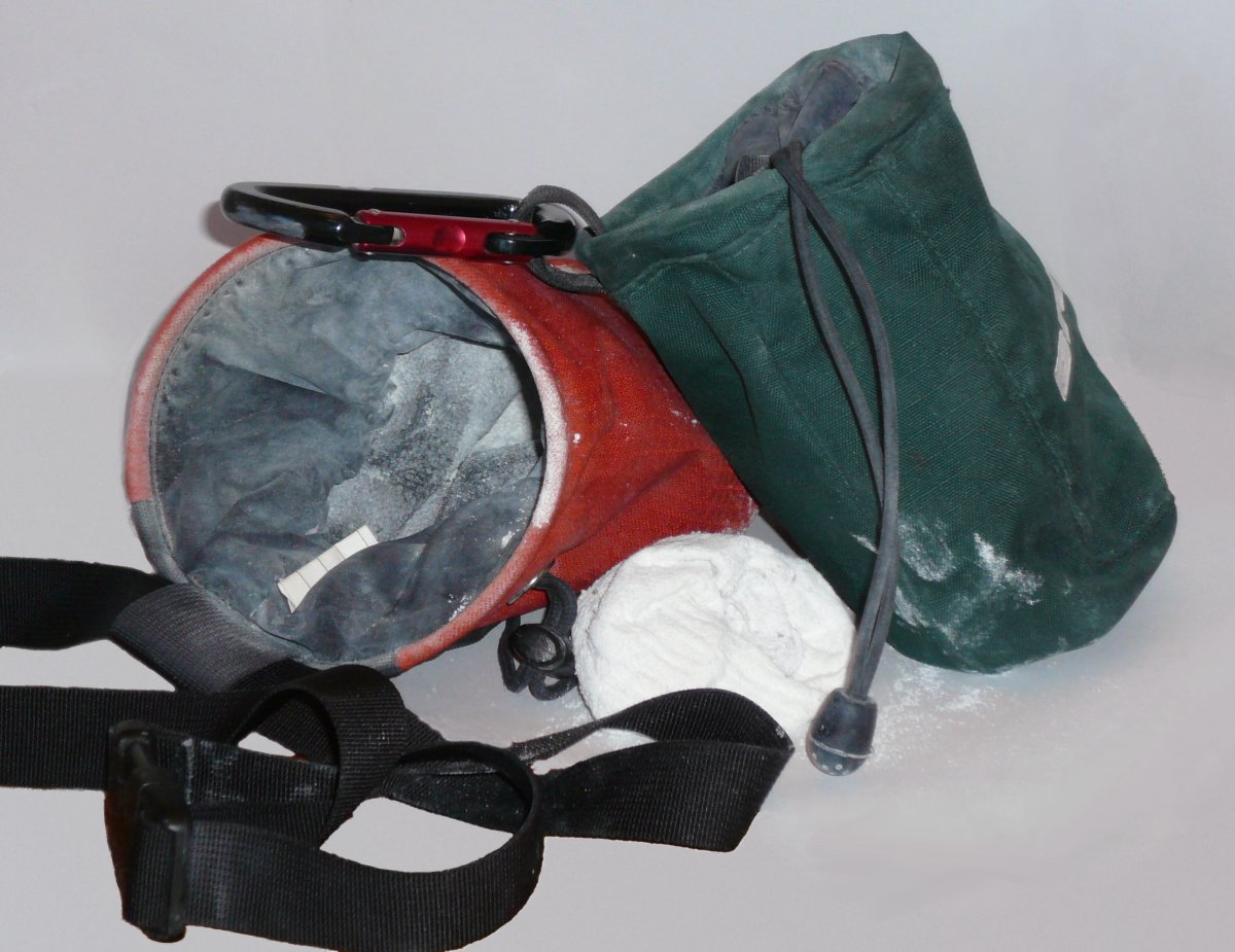 Chalk bags for use in rock climbing. Image is self made.